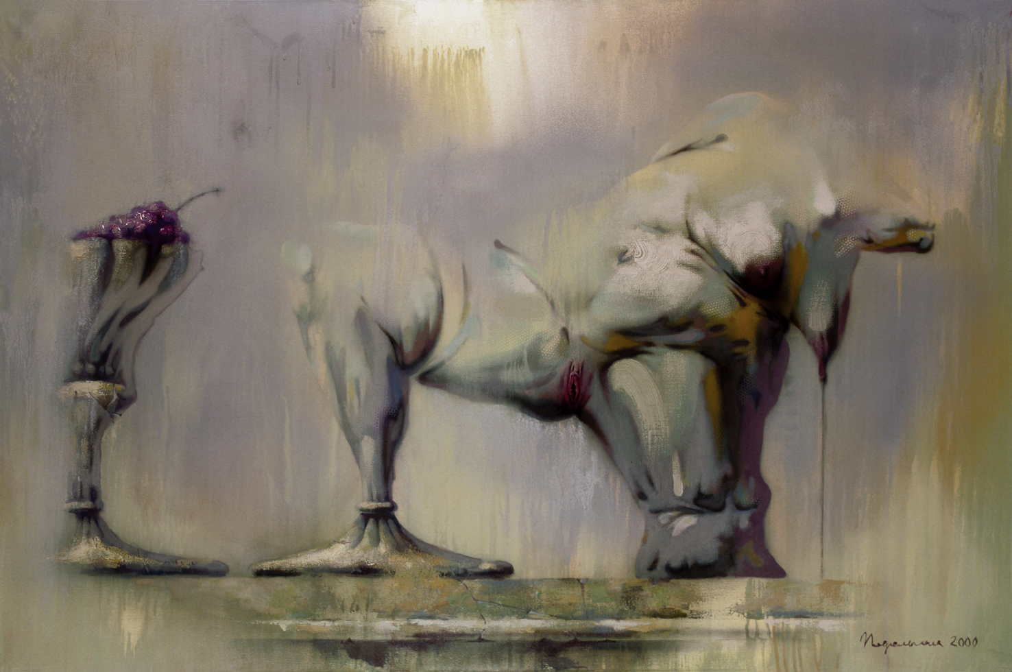 Untitled. 2000. Acrylic on canvas, 80х120 cm